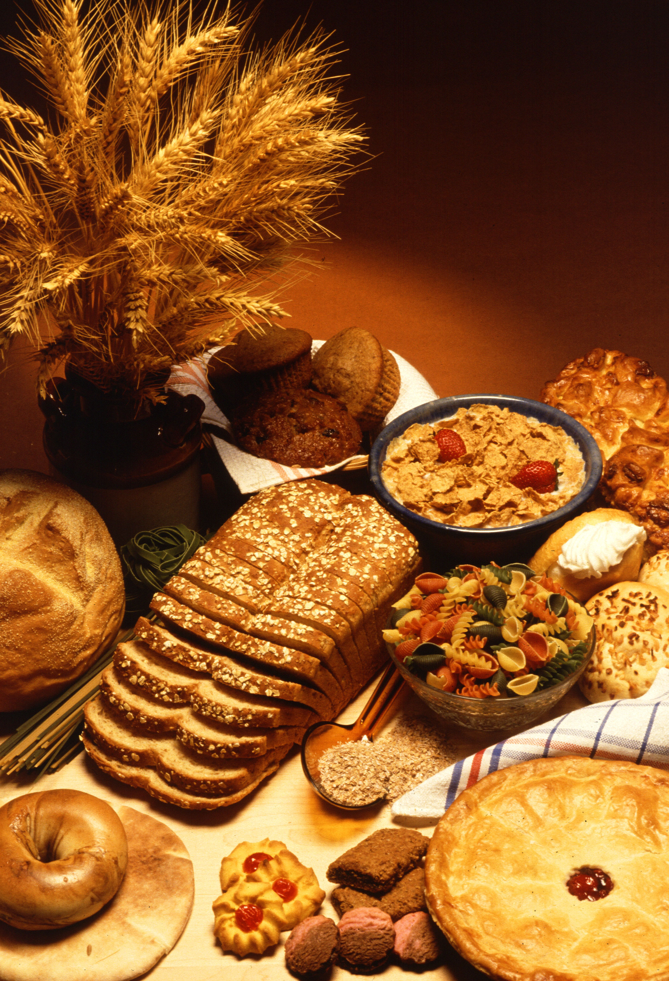 A variety of foods made from wheat.